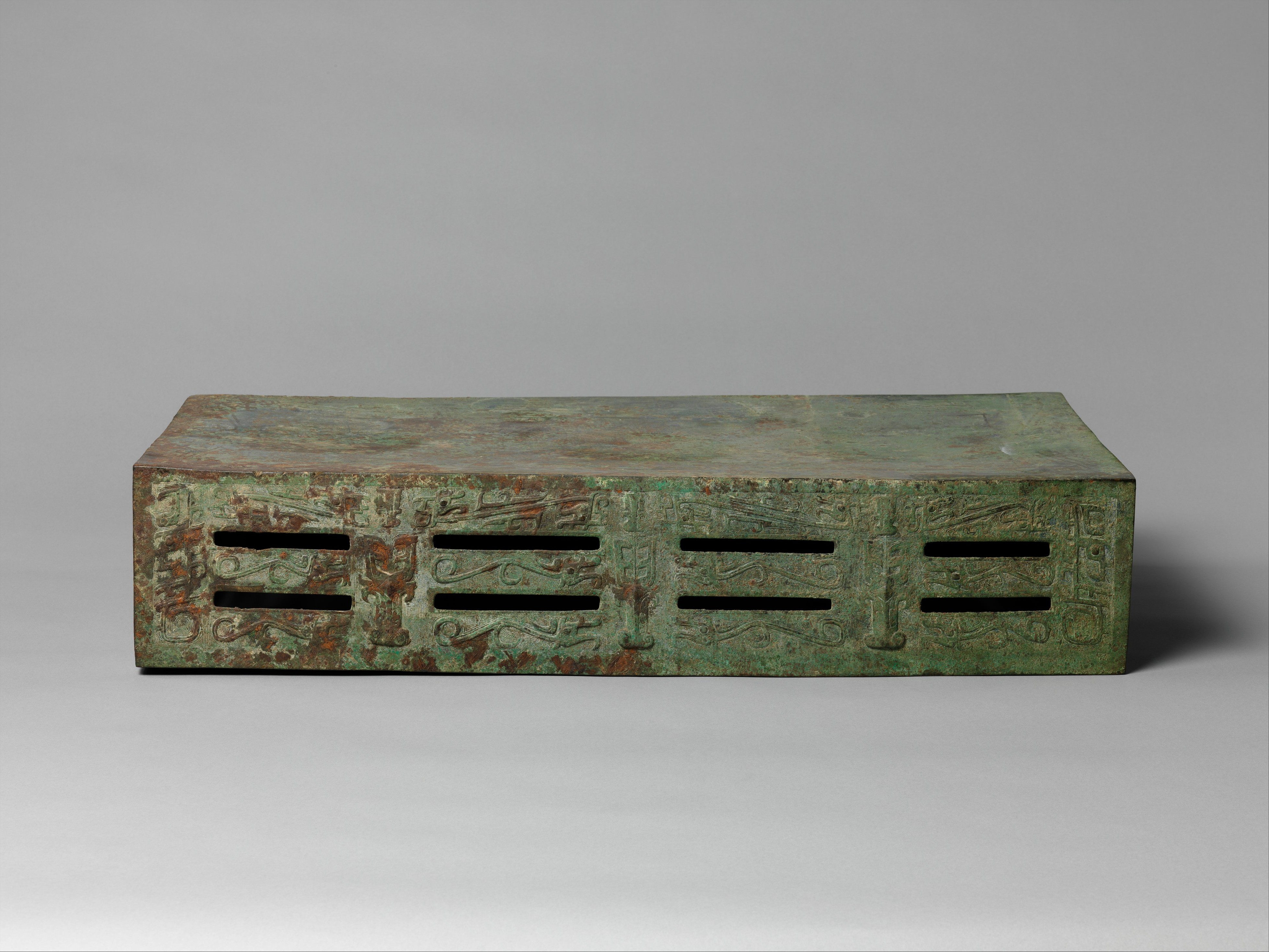 China; Altar table; Metalwork